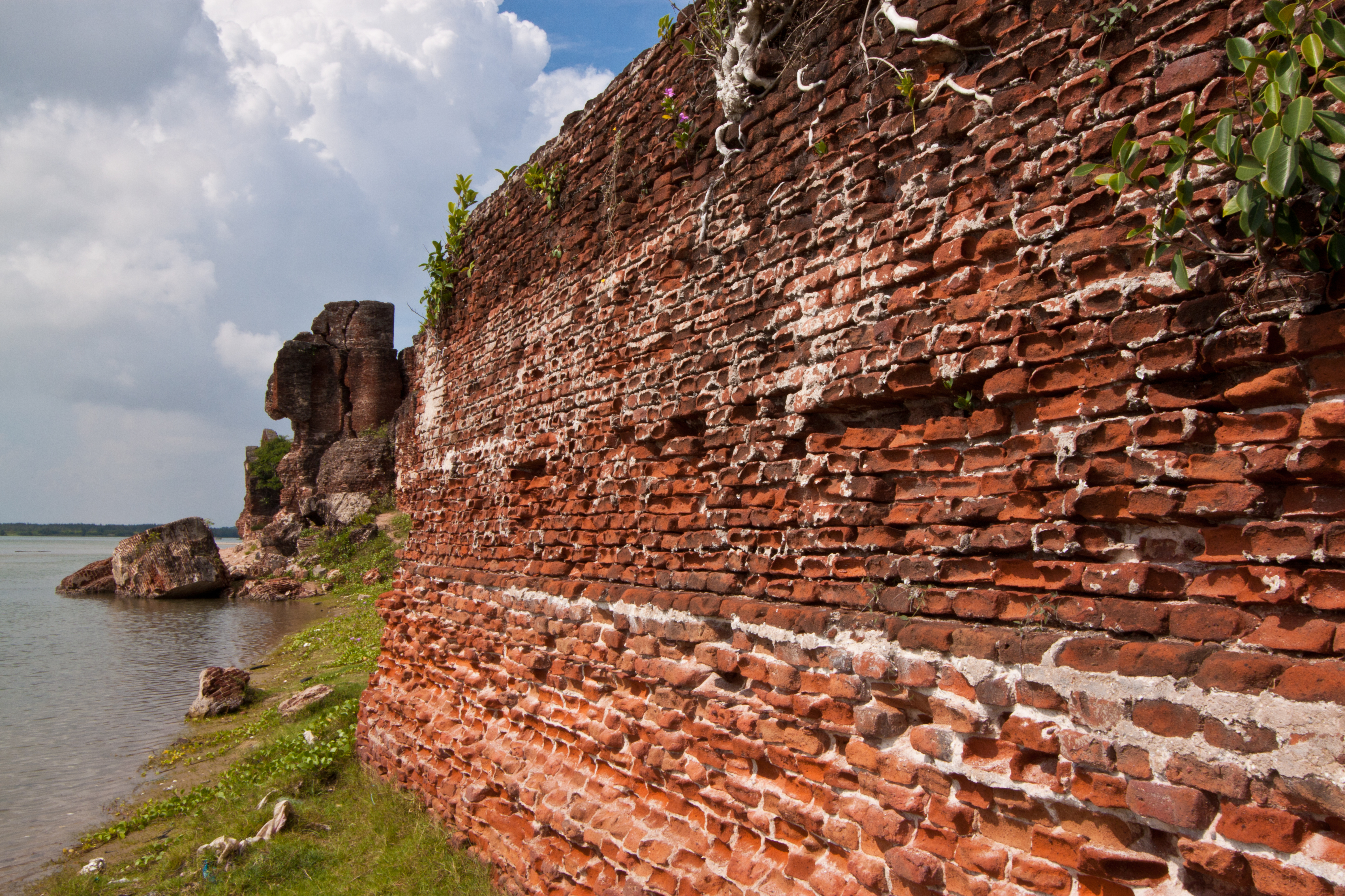 I shot this in Alampara fort ruins on the shore of East Coast near to pondichery. This fort was built in 17 century and now in a ruined state.